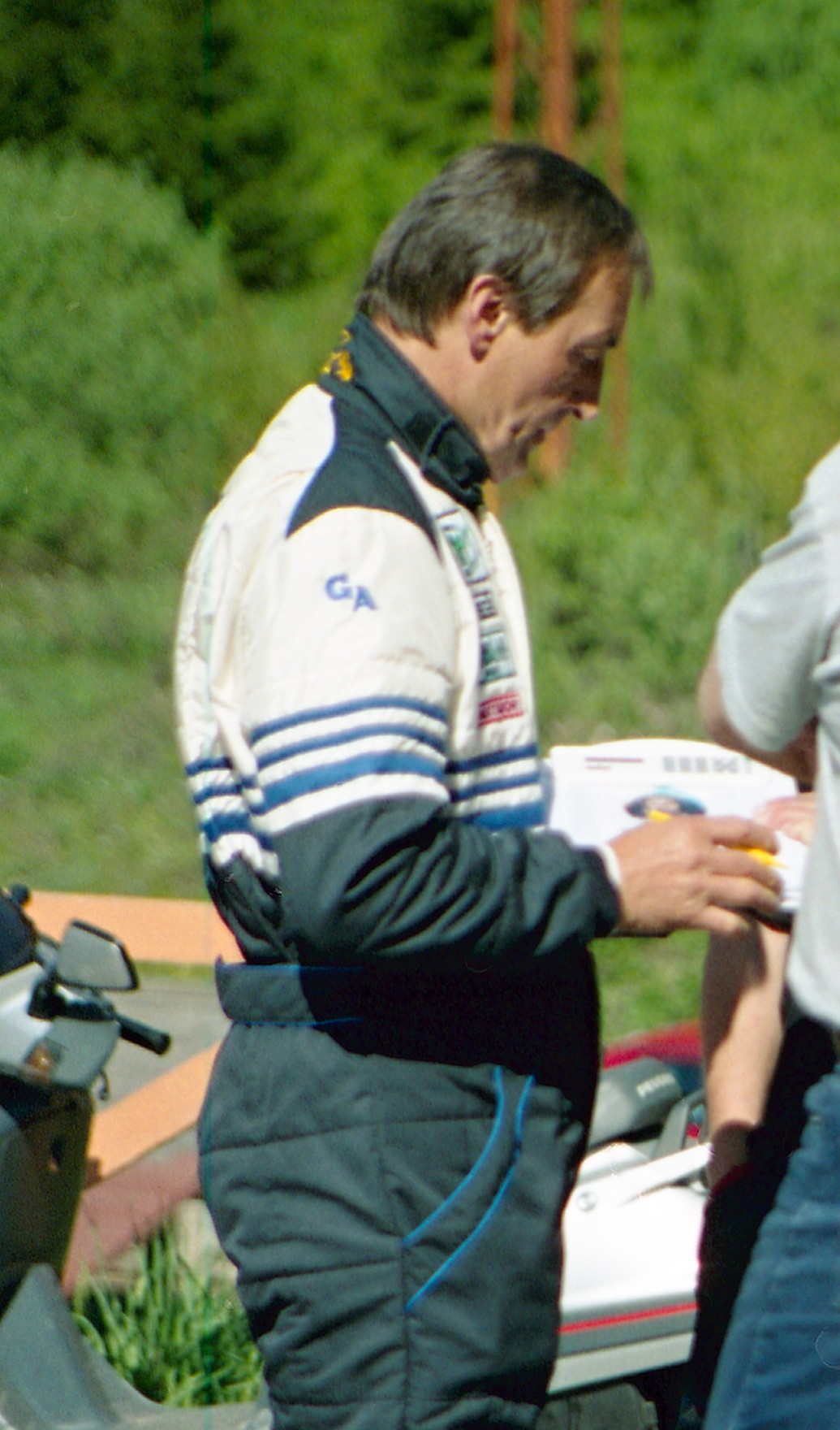 Michal Dočolomanský as pilot of a racing car.